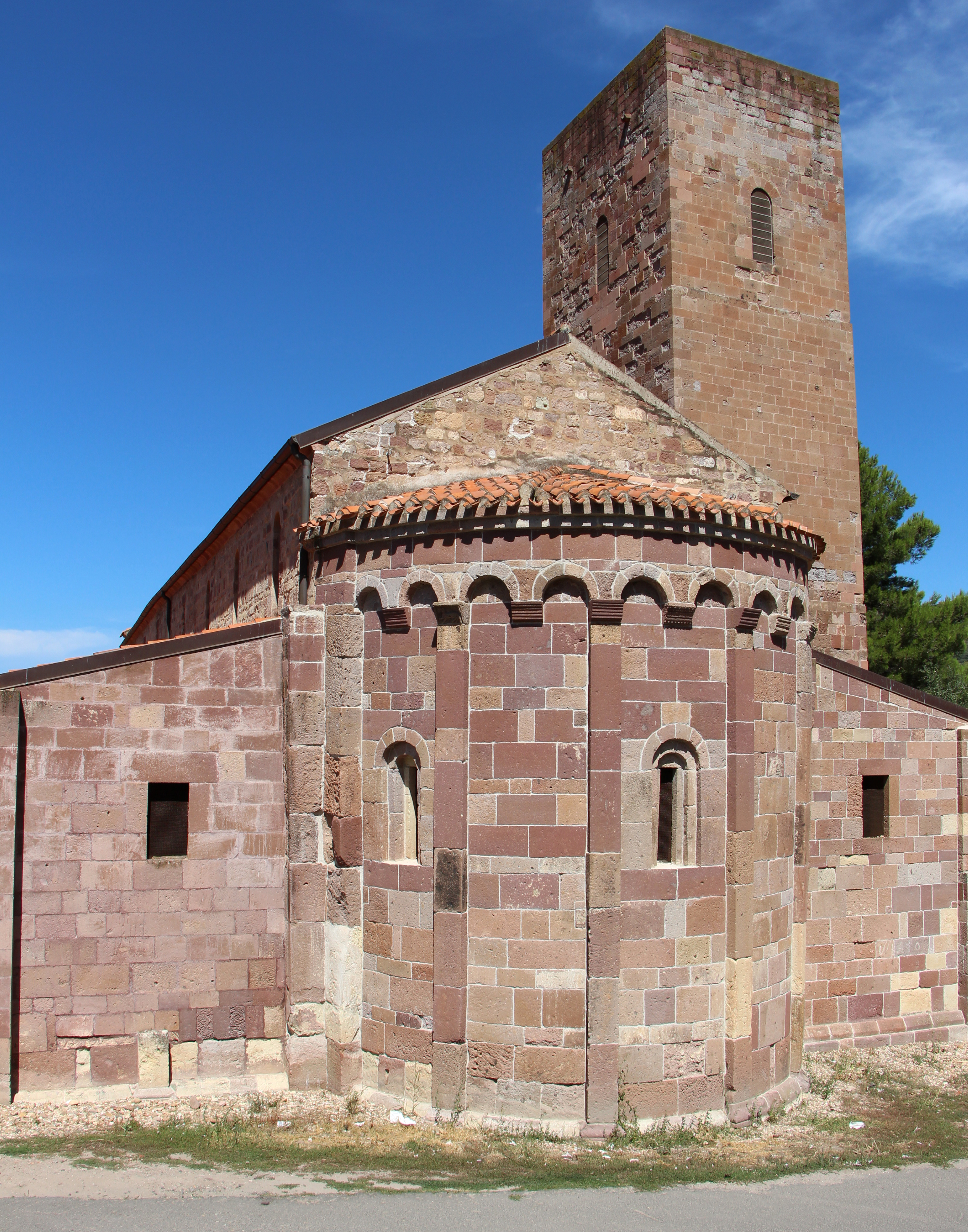 Bosa, san pietro extra muros, abside 03.JPG The making of this document was supported by Wikimedia CH. (Submit your project!) For all the files concerned, please see the category Supported by Wikimedia CH.